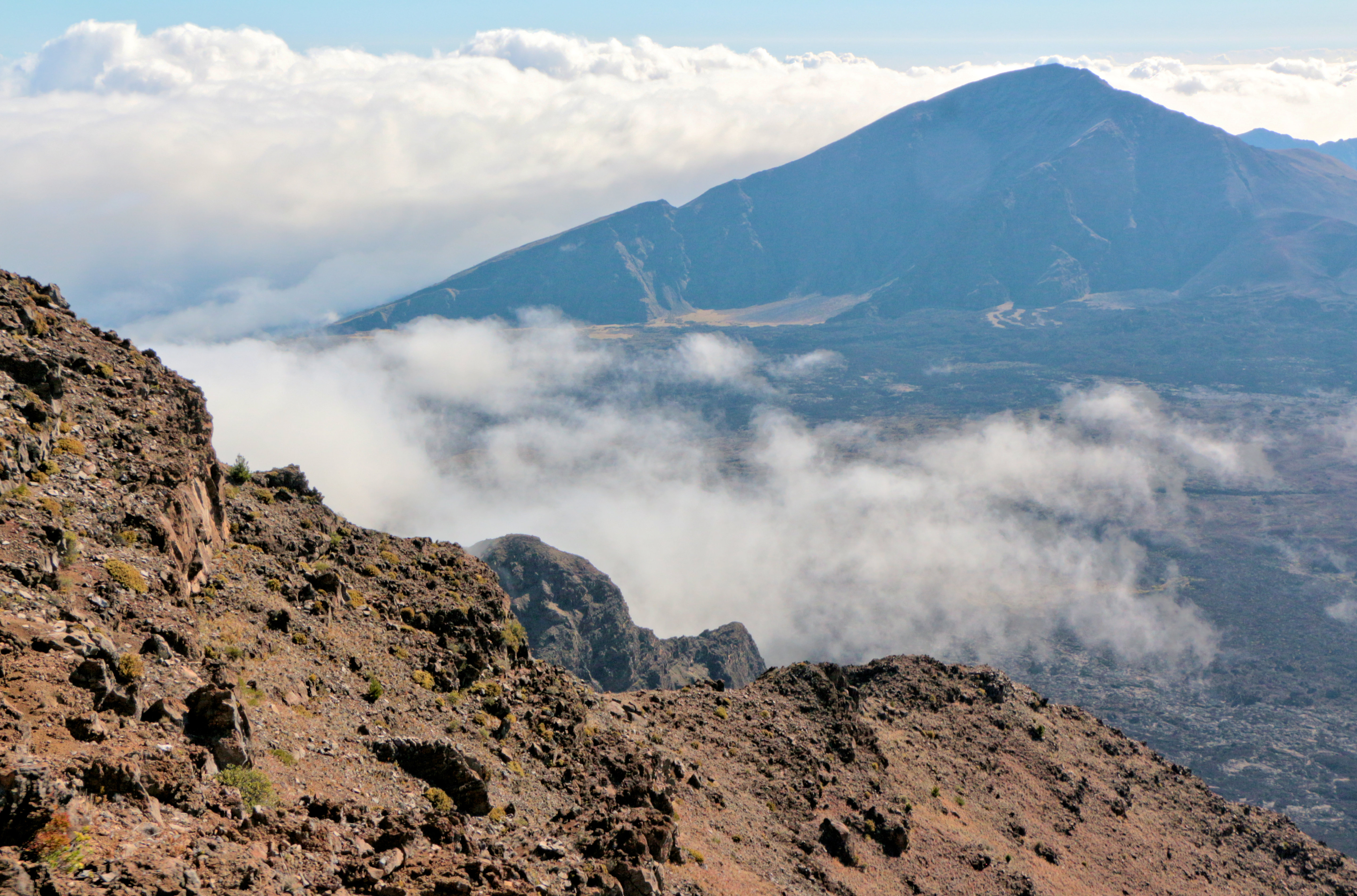 In mid-morning, clouds roll in through a gap in the caldera rim of Haleakala Crater on Maui.